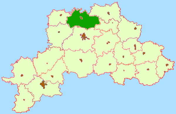 Mogilev Region map by Al Silonov